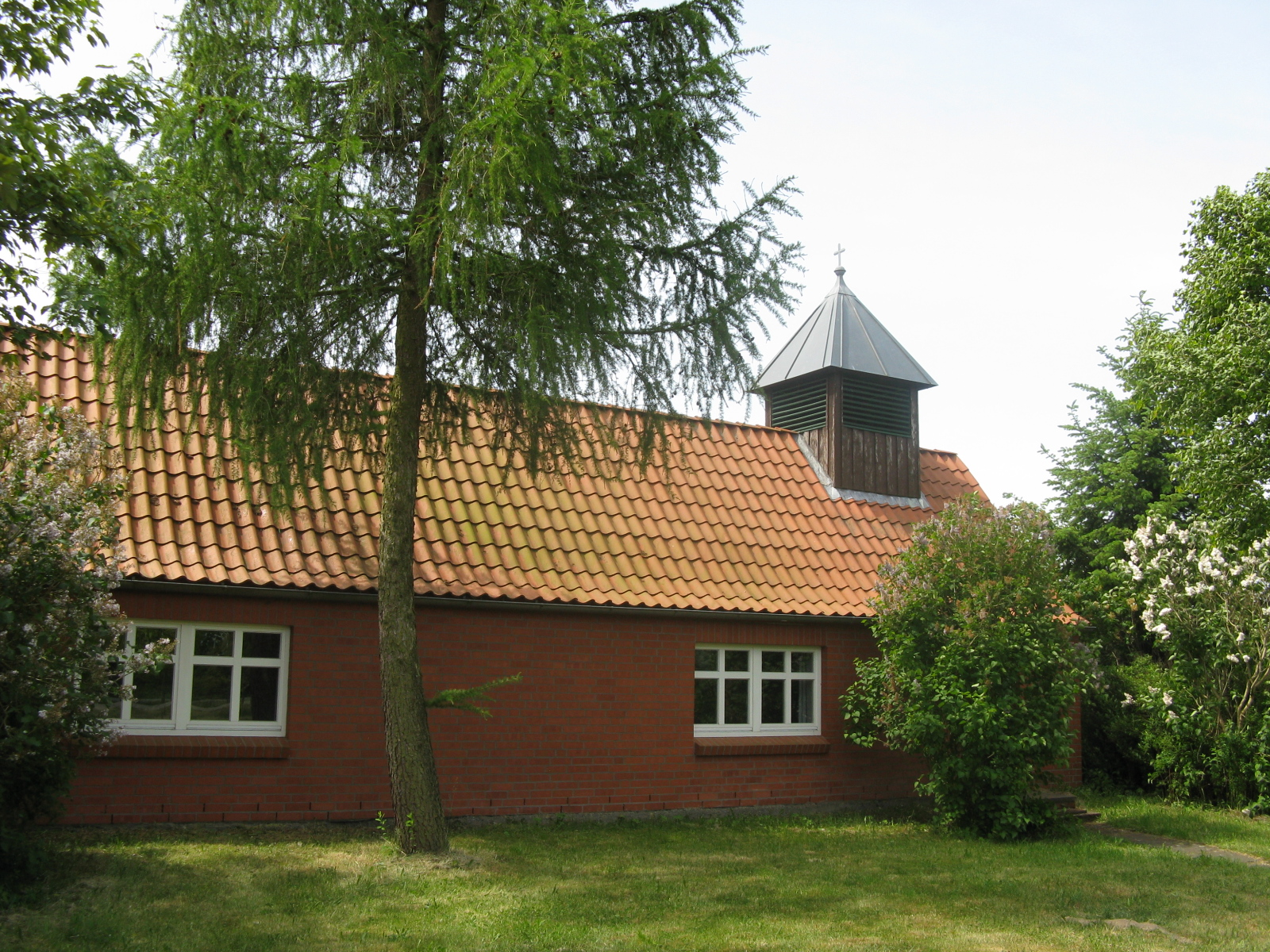 Church of Niendorf an der Rögnitz, Mecklenburg-Vorpommern, Germany